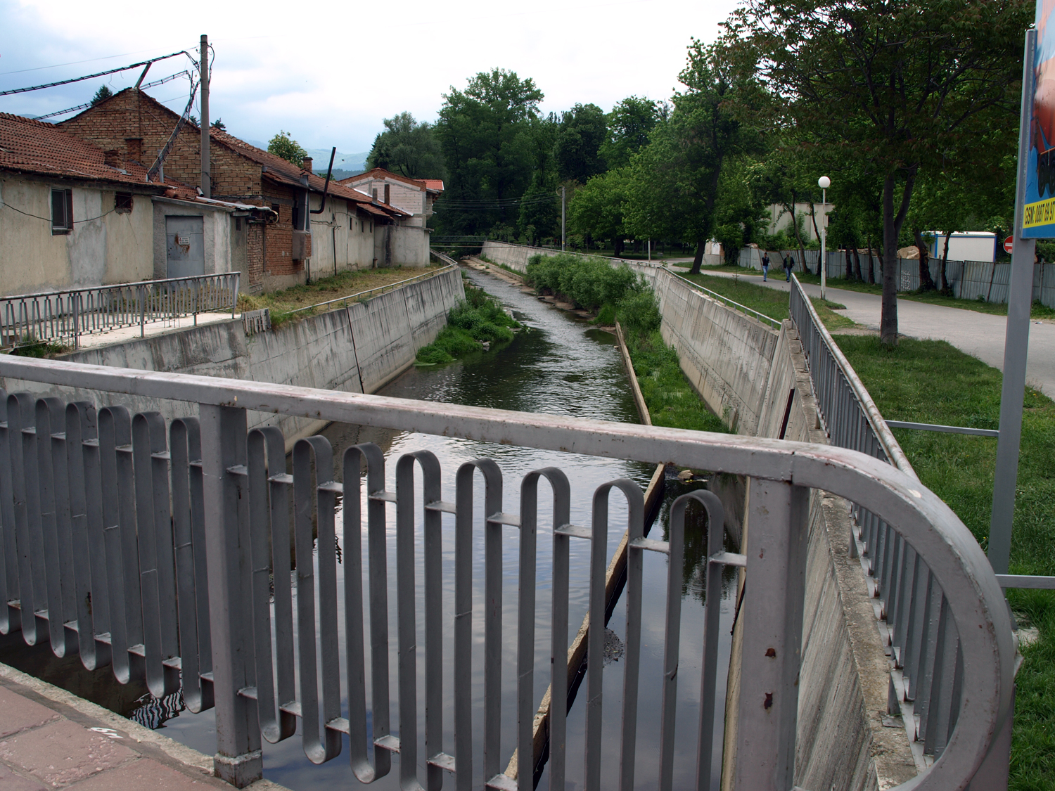 Panagyurska Luda Yana River, view from the bridge of Raina Knyaginya street in Panagyurishte